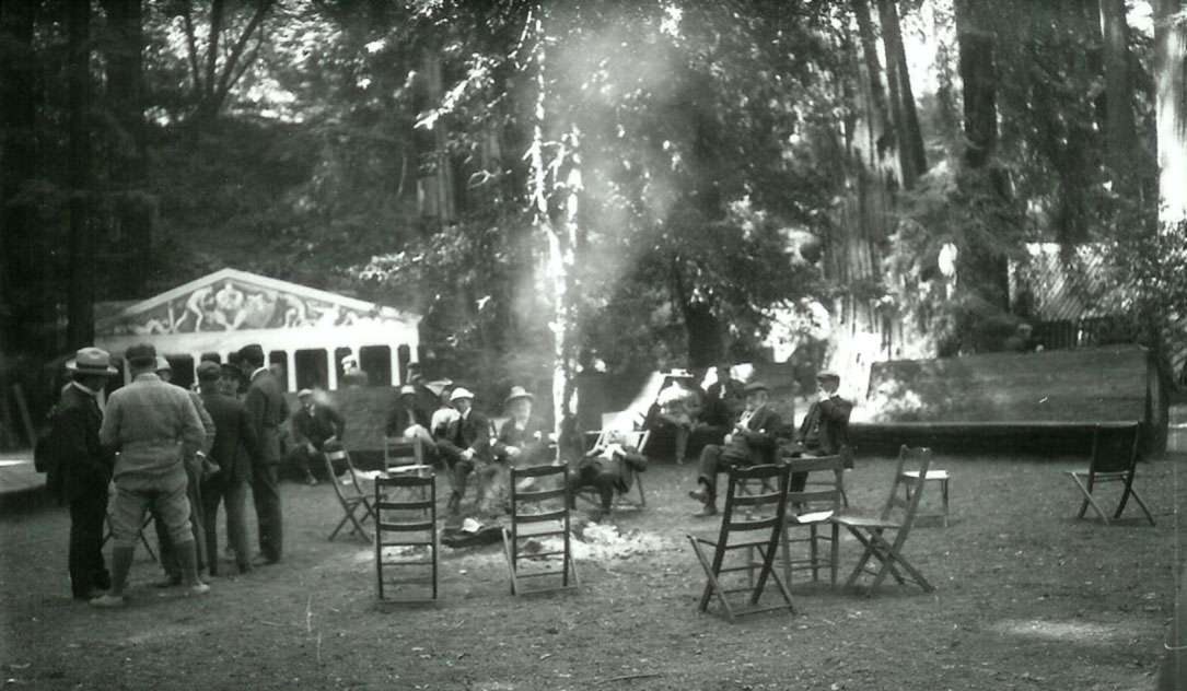 A rare look at Bohemian Grove during the summer Hi-Jinks as photographed by novelist Jack London. circa 1911-16